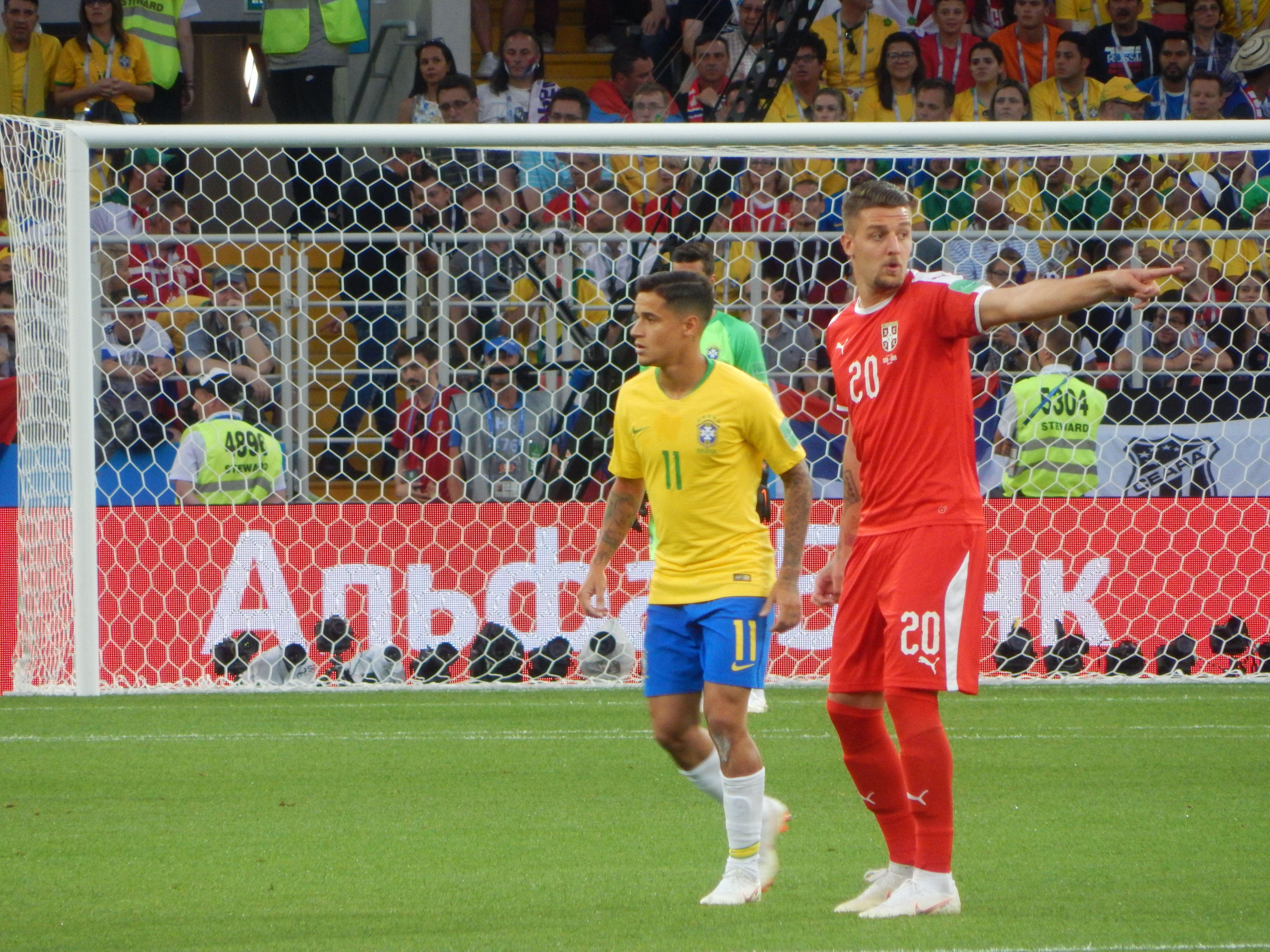 FIFA World Cup 2018, Group E, Serbia vs. Brazil